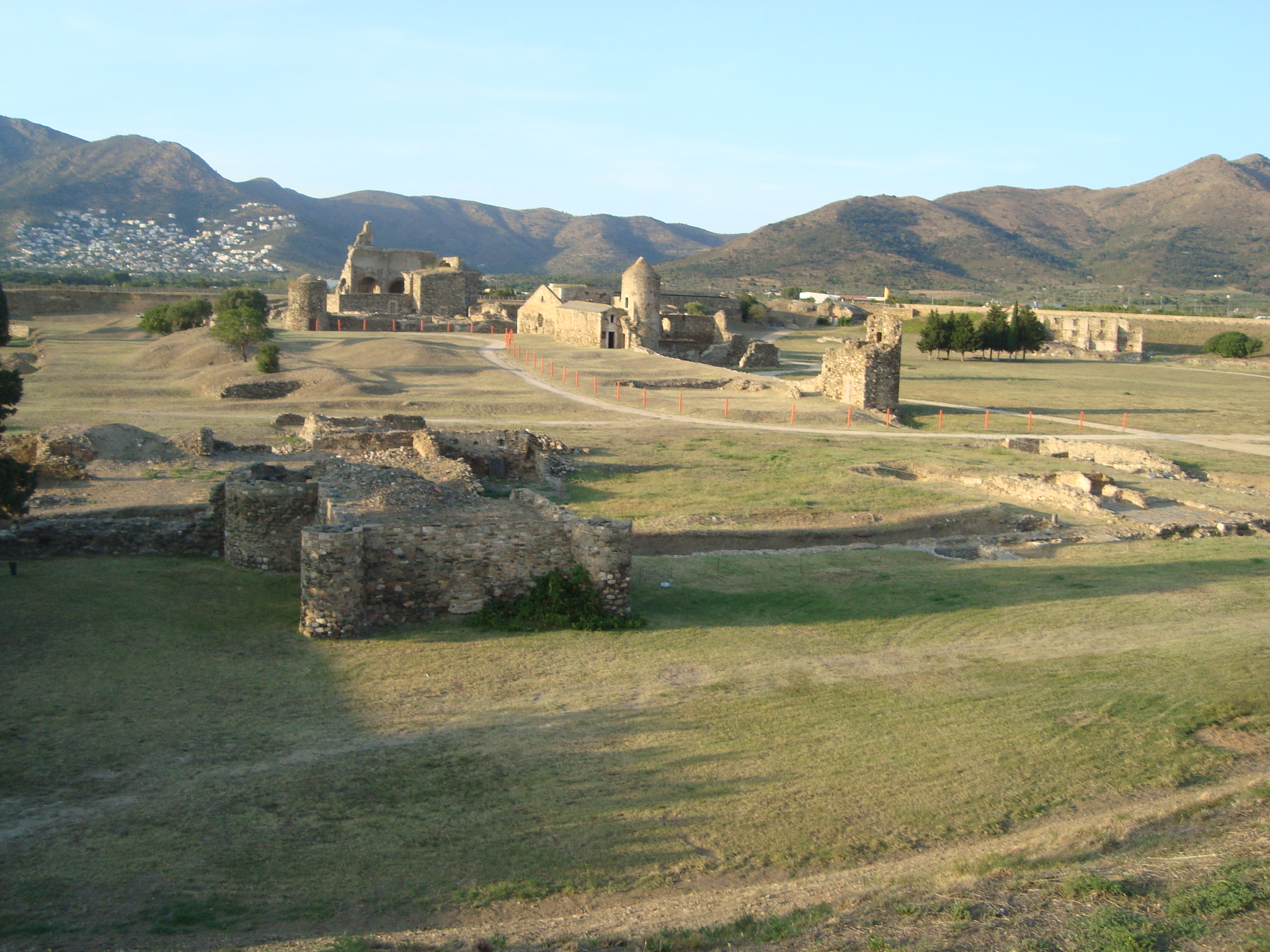 Vista interior de la Ciutadella